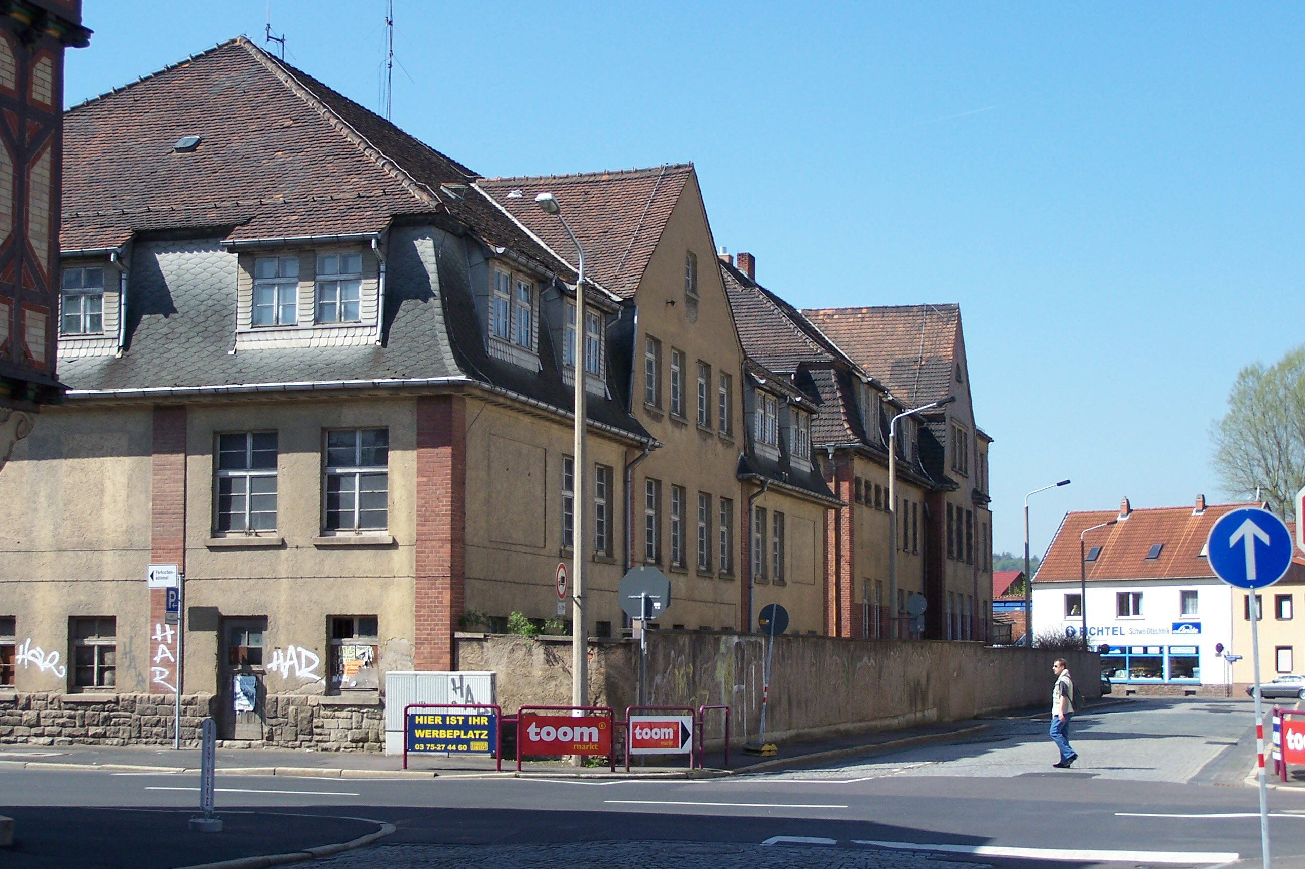 The former barracks in Eisenach, Karl-Marx-Straße 2.